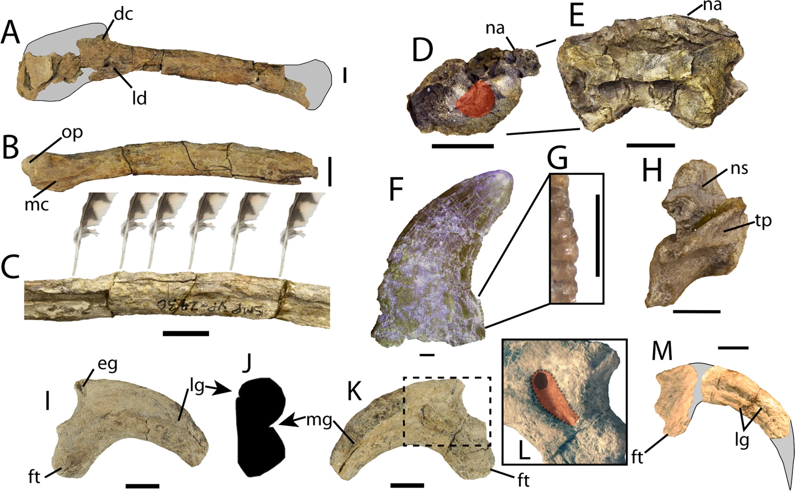 Selected elements and features of the holotype of Dineobellator notohesperus (SMP VP-2430), gen. et sp. nov., including: right humerus, posterior (A) view; right ulna, medial (B) view; close up of ulna showing feathers where ulnar papillae are located along the ulnar ridge, feathers used are from Megascops kennicottii (C); middle caudal vertebra (D,E), distal (D) and (E) lateroventral (E) views, with red highlighting circular indent on centrum surface; tooth, lateral (F) view; magnification of distal basal denticles (G); anterior caudal vertebra 1, right lateral (H) view; right manual ungual II (I–L), lateral (I) view, silhouette of transverse plane of right manual ungual II near distal end (J), medial (K) view, and with area shown in dashed box in K highlighting abnormal oblong concavity in red (L); right pedal ungual III, partially reconstructed, lateral (M) view. Abbreviations: cc, central concavity; dc, deltopectoral crest; eg, digital extensor groove; ft, flexor tubercle; ld, latissimus dorsi scar; lg, lateral groove; mc, medial crest; mg, medial groove; na, neural arch; ns, neural spine; op, olecranon process; tp, transverse process. Scale bars, 1 cm for (A–E) and (H–M), 1 mm for (F,G). (L) not to scale.